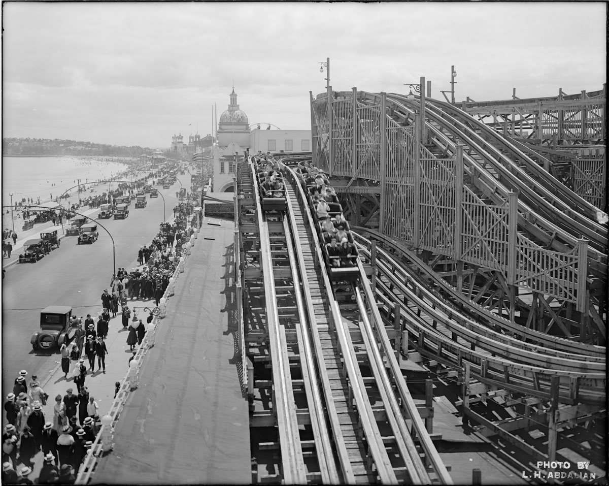 File name: 08_01_000567 Title: The "Derby Racer" at Revere Beach Creator/Contributor: Abdalian, Leon H., 1884-1967 (photographer) Date created: 1920-07-25 Physical description: 1 negative : glass, black & white ; 8 x 10 in. Genre: Glass negatives Notes: Abdalian identifier no. 13008 Location: Boston Public Library, Print Department Rights: No known restrictions